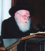 Picuture of Rabbi Avraham Shapira head of yeshivat Mercaz haRav in Jerusalem. Avraham Elkanah Kahana Shapira is a prominent figure in the Religious Zionist world.